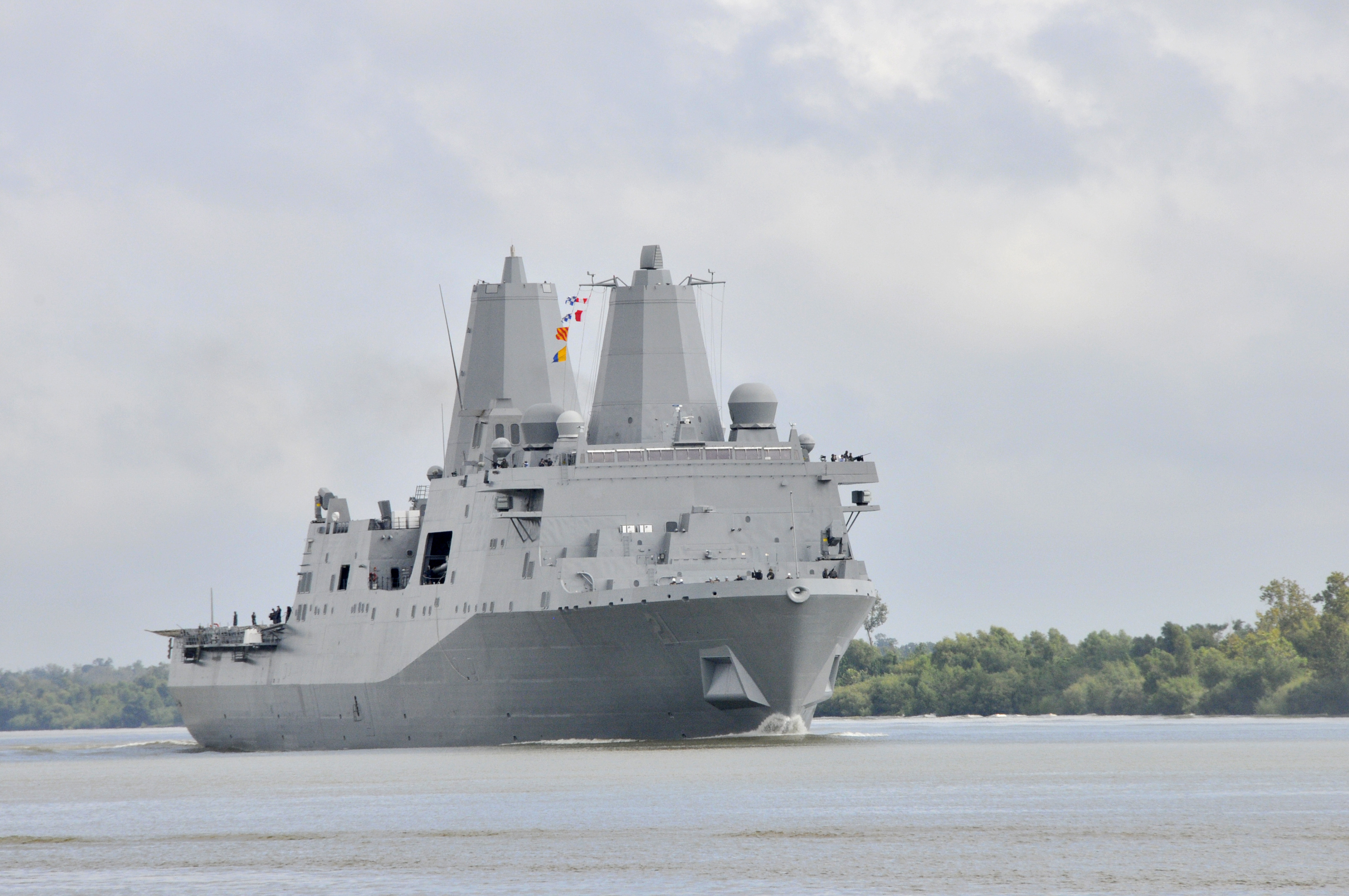 Pre-Commissioning Unit (PCU) New York (LPD 21) transits down the Mississippi River. The New York was built using 7.5 tons of the World Trade Center's steel and is scheduled to be commissioned Nov. 7 in New York City.